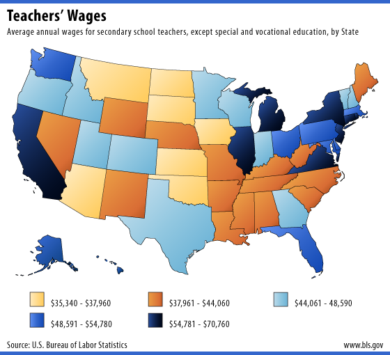 Teachers salary ranges in 2005